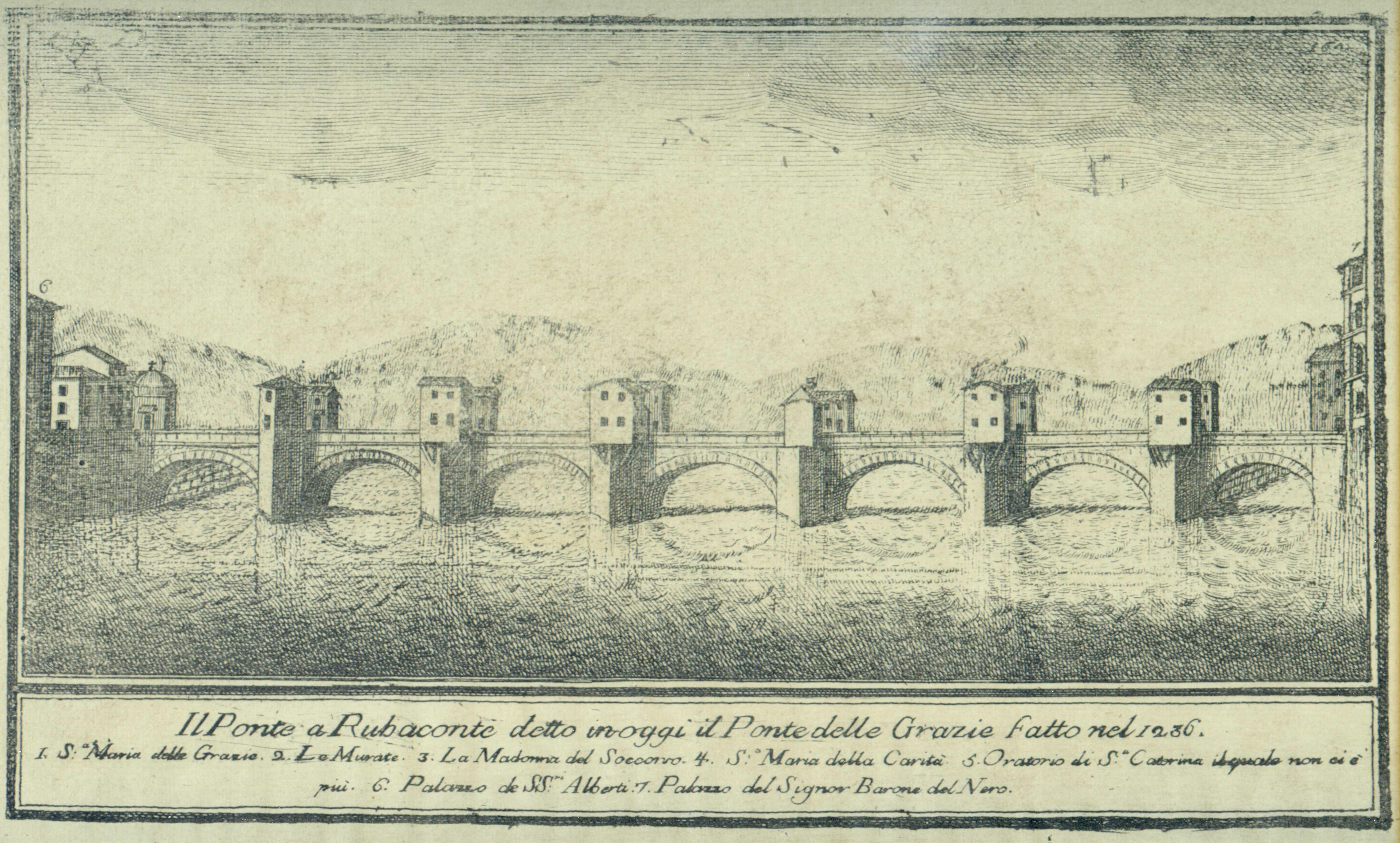 Ponte delle Grazie - Rubaconte bridge - Florence